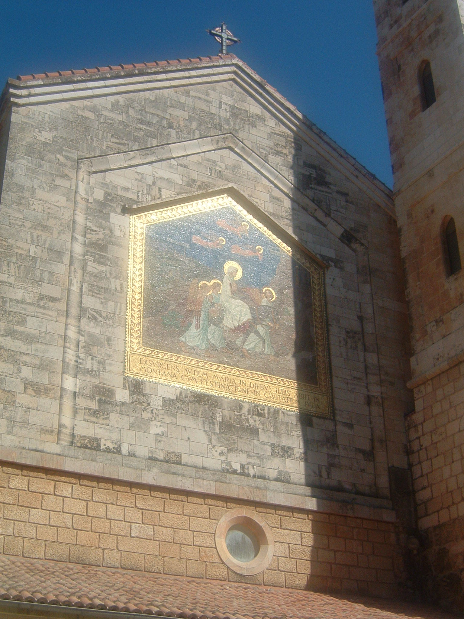 Church of the Visitation in Ain Karem, Israel